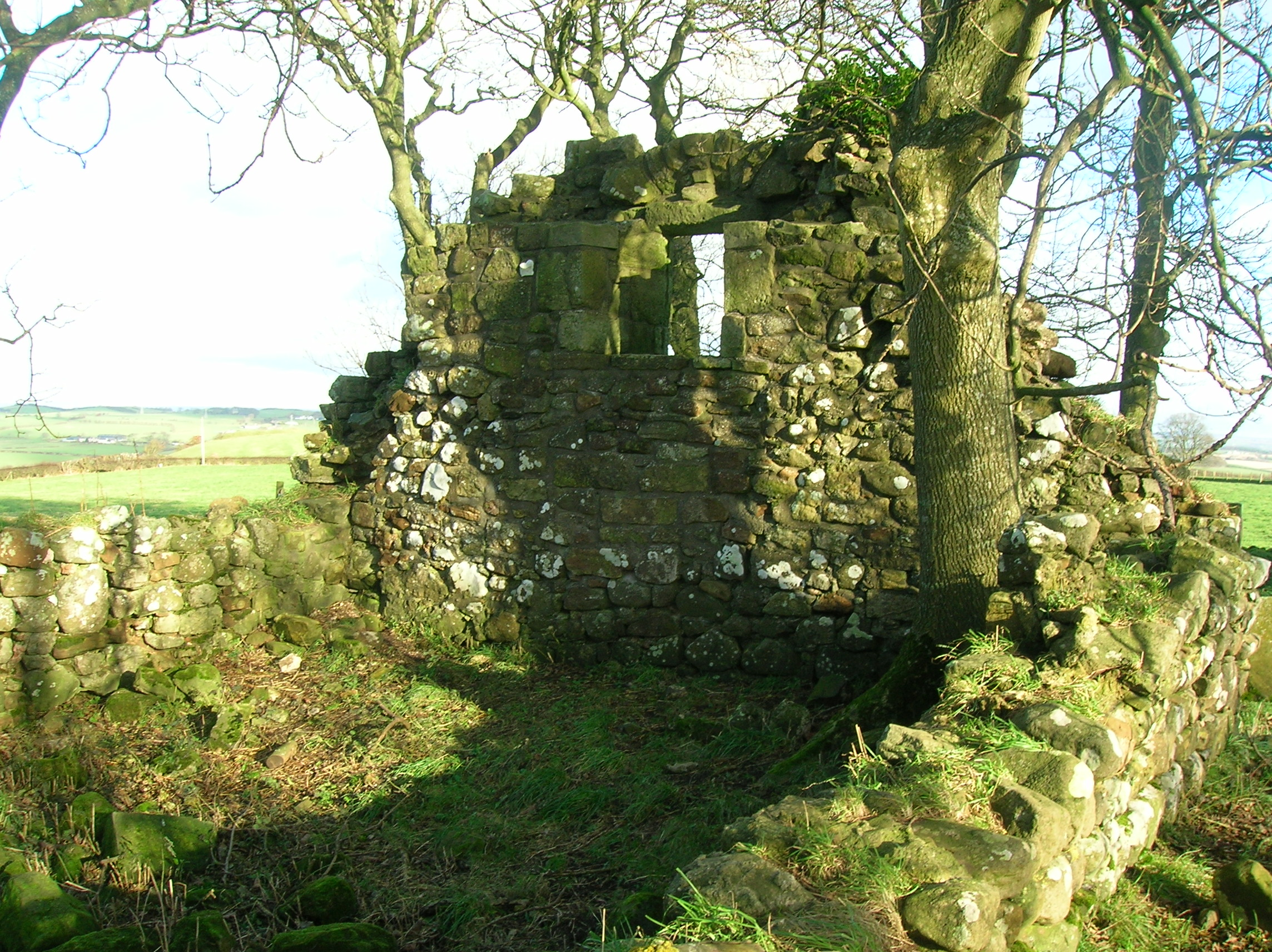 Barnweill Church and it's eat gable and window from the south wall. South Ayrshire, Scotland